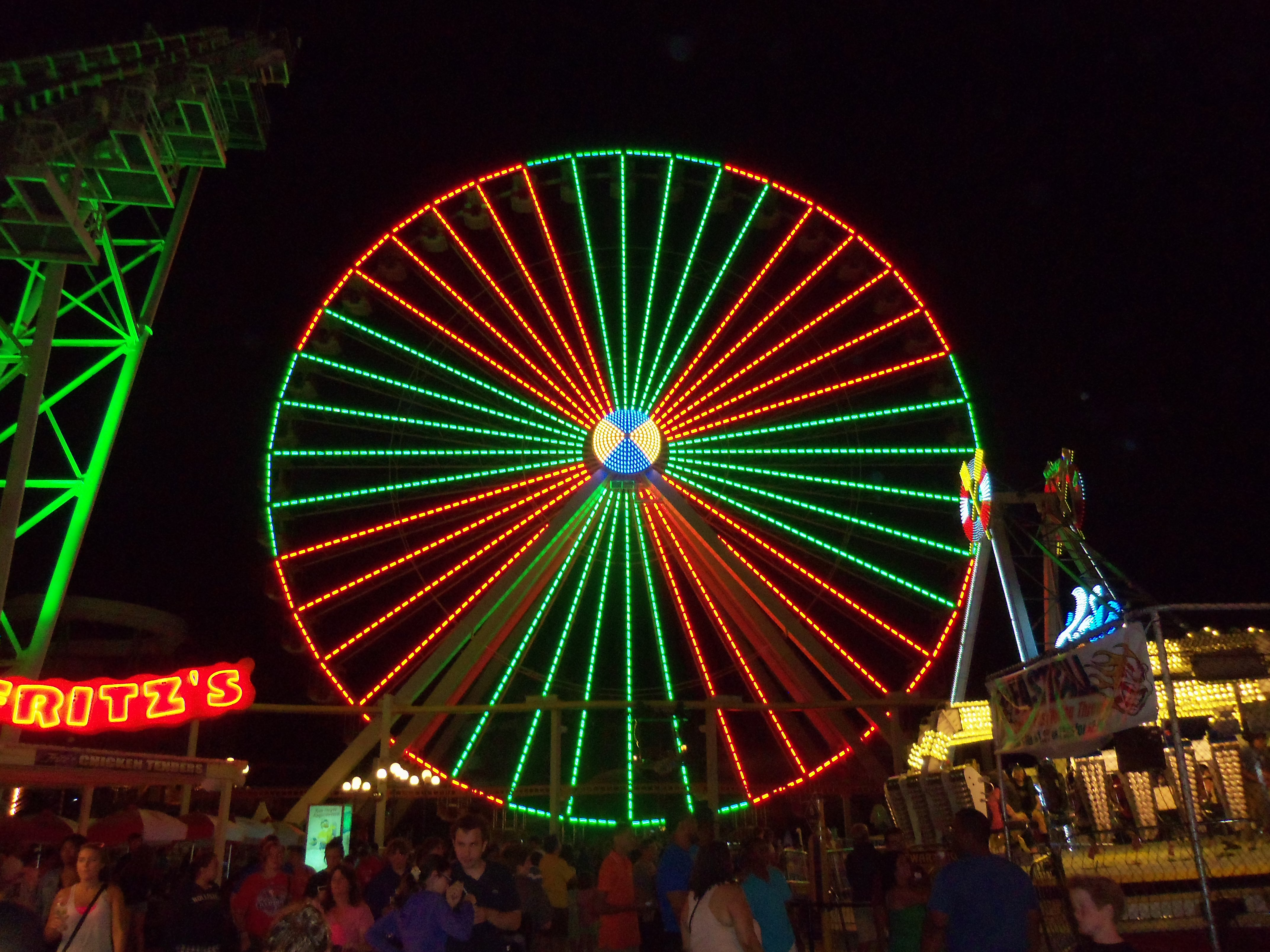 Giant Ferris Wheel (Morey's Piers) Wildwood NJ Night 2012